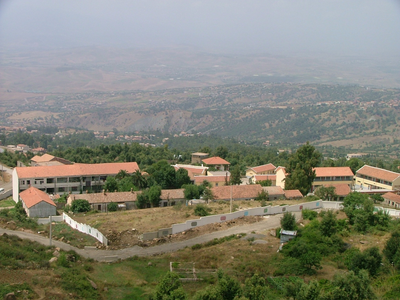 Vue de l'ecole. Le batiment d'origine apparait au premier plan